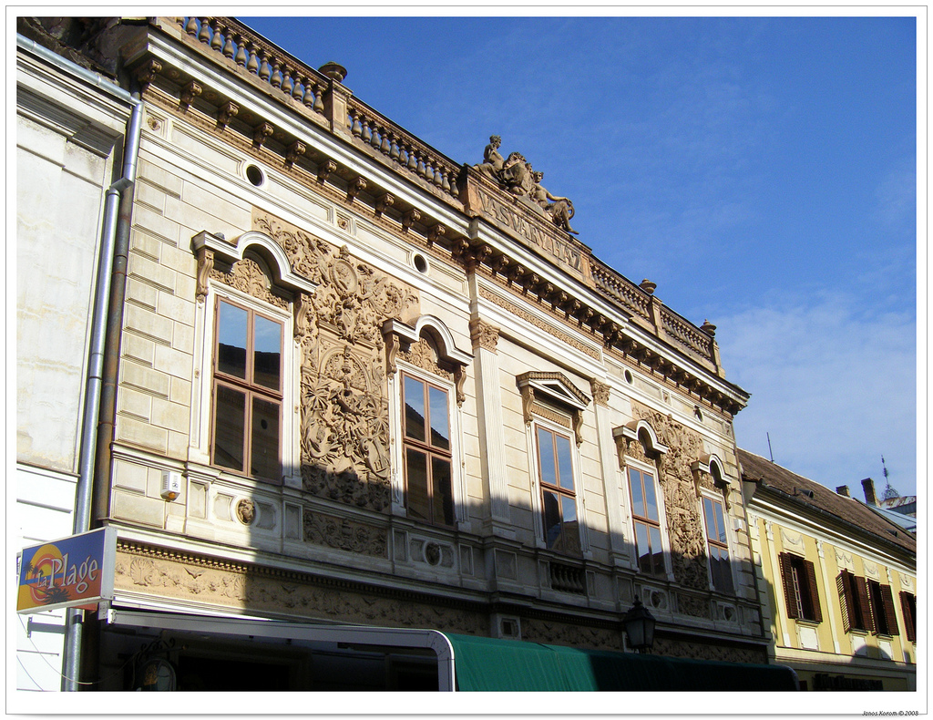 Building on Kiraly street, Pécs, Hungary